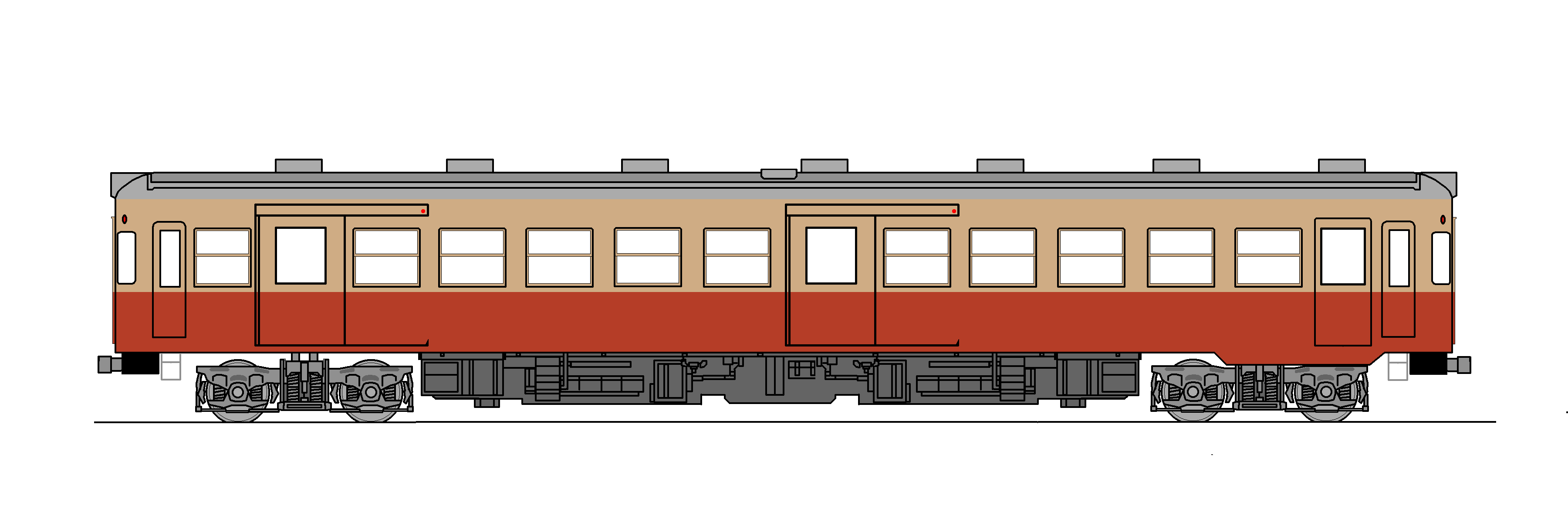 The side view of the DMU series 751 of Kanto Railway.